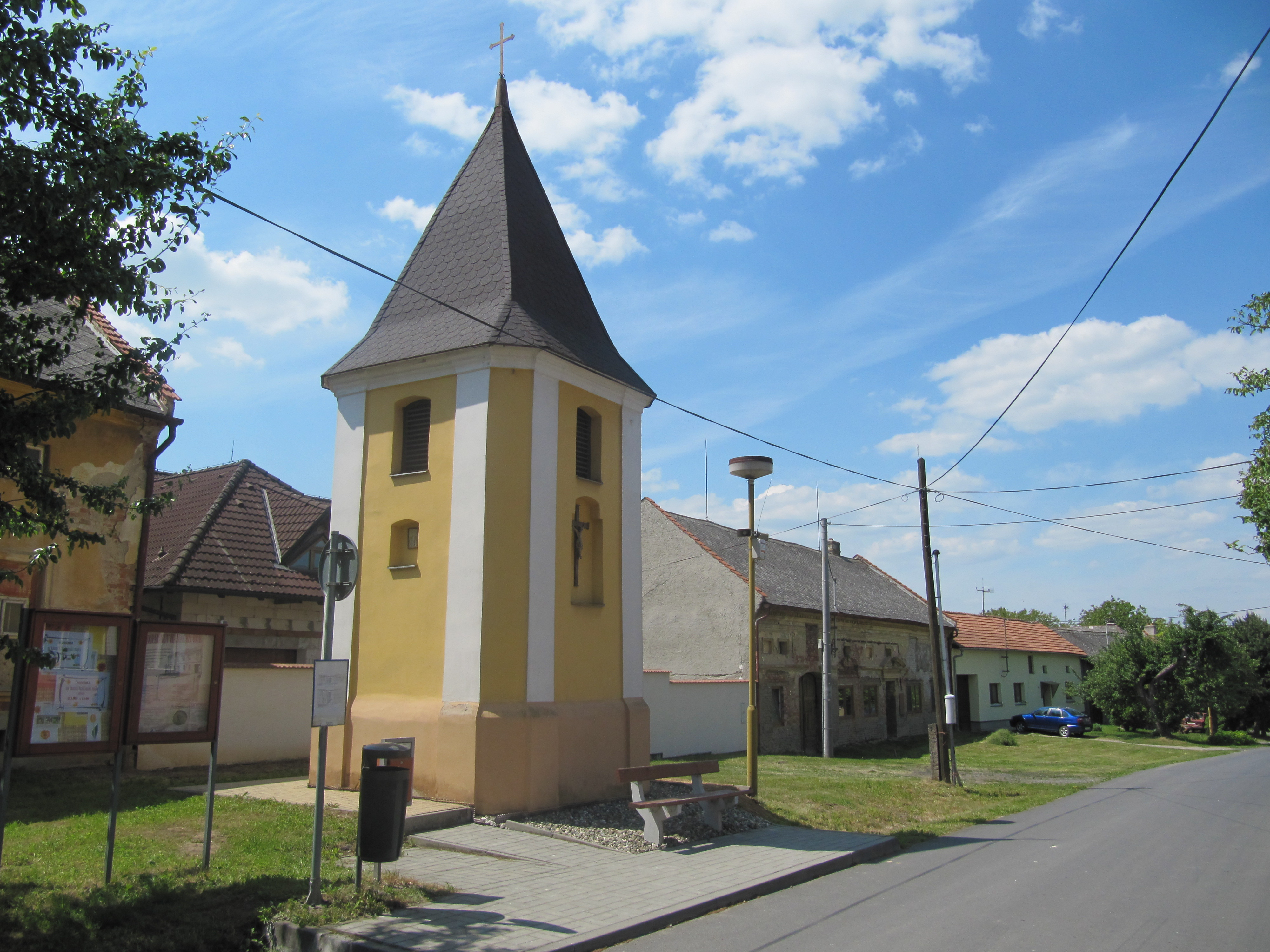 Hulín in Kroměříž District, Czech Republic, part Chrášťany. Belfry.